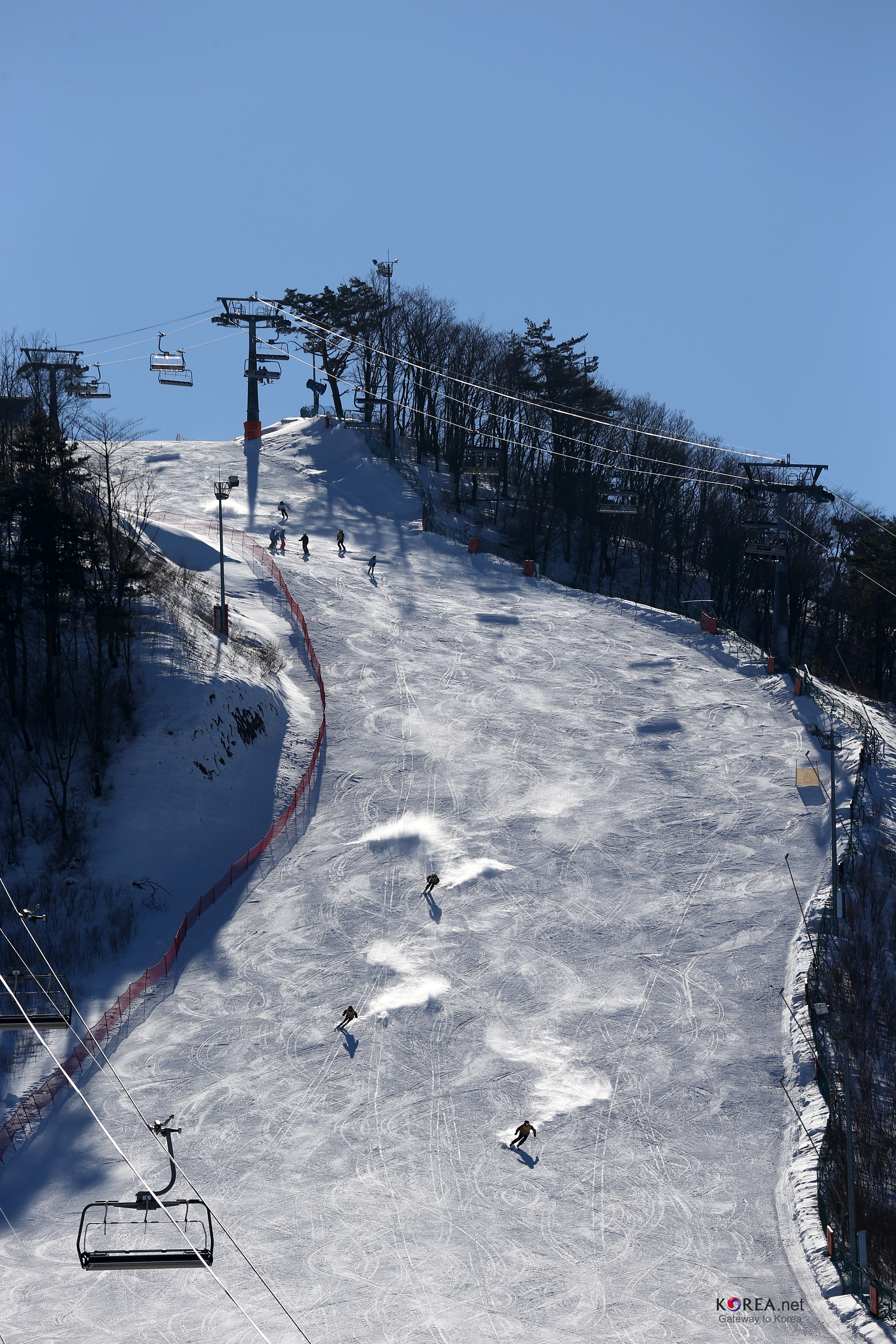 2013 PyeongChang The Special Olympics World Winter Games Media Day PyeongChang, Gangwon-Do 2013.01.10. Ministry of Culture, Sports and Tourism Korean Culture and Information Service Jeon Han 2013 평창 동계 스페셜올림픽 세계대회 미디어데이 평창, 강원도 문화체육관광부 해외문화홍보원 코리아넷 전한